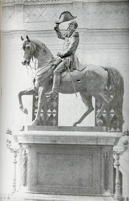 Estatue of Guzmán Blanco known as El Saludante by Joseph A. Bailly